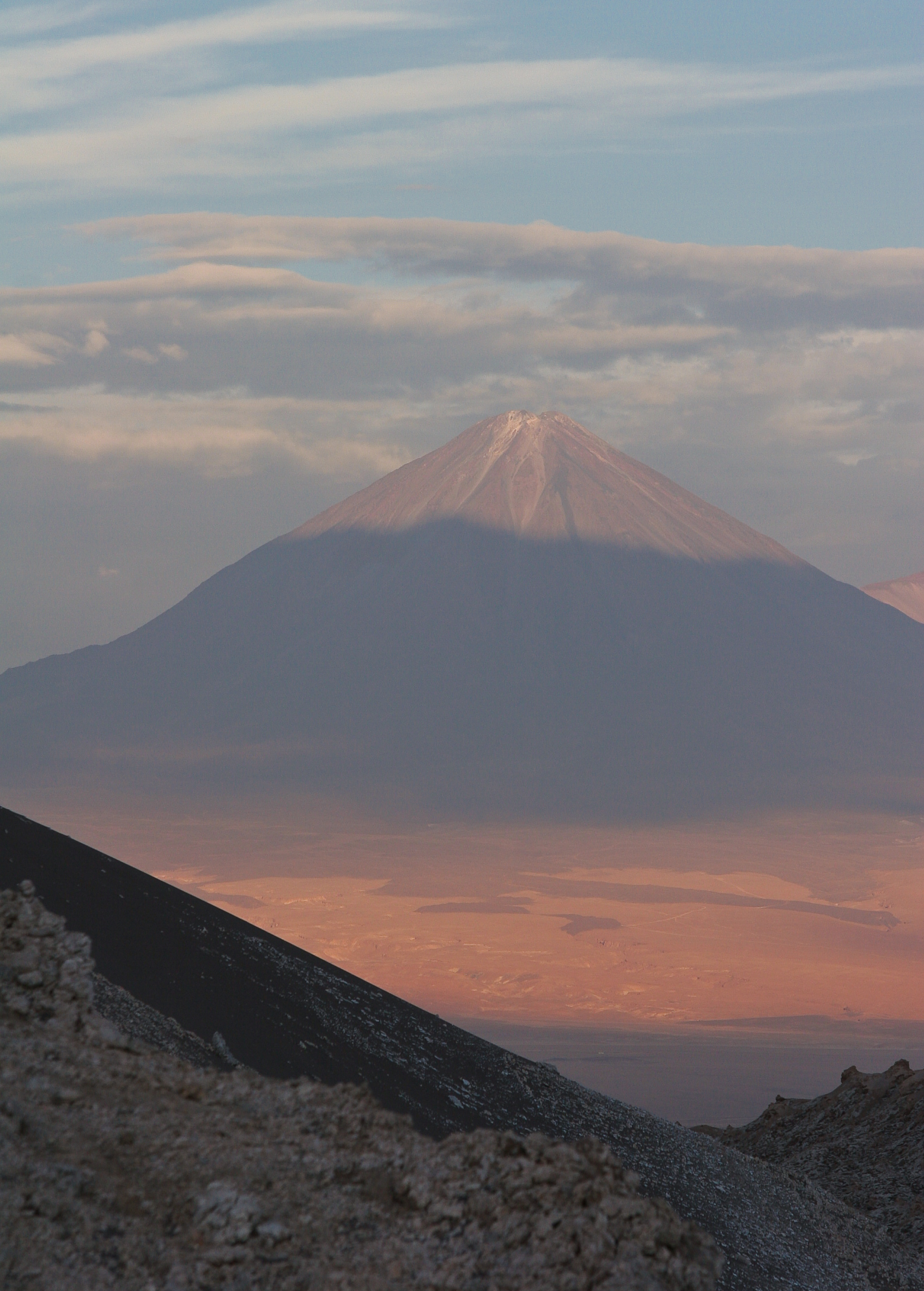 The Quimal casts its shadow on the Licancabur at sunset.